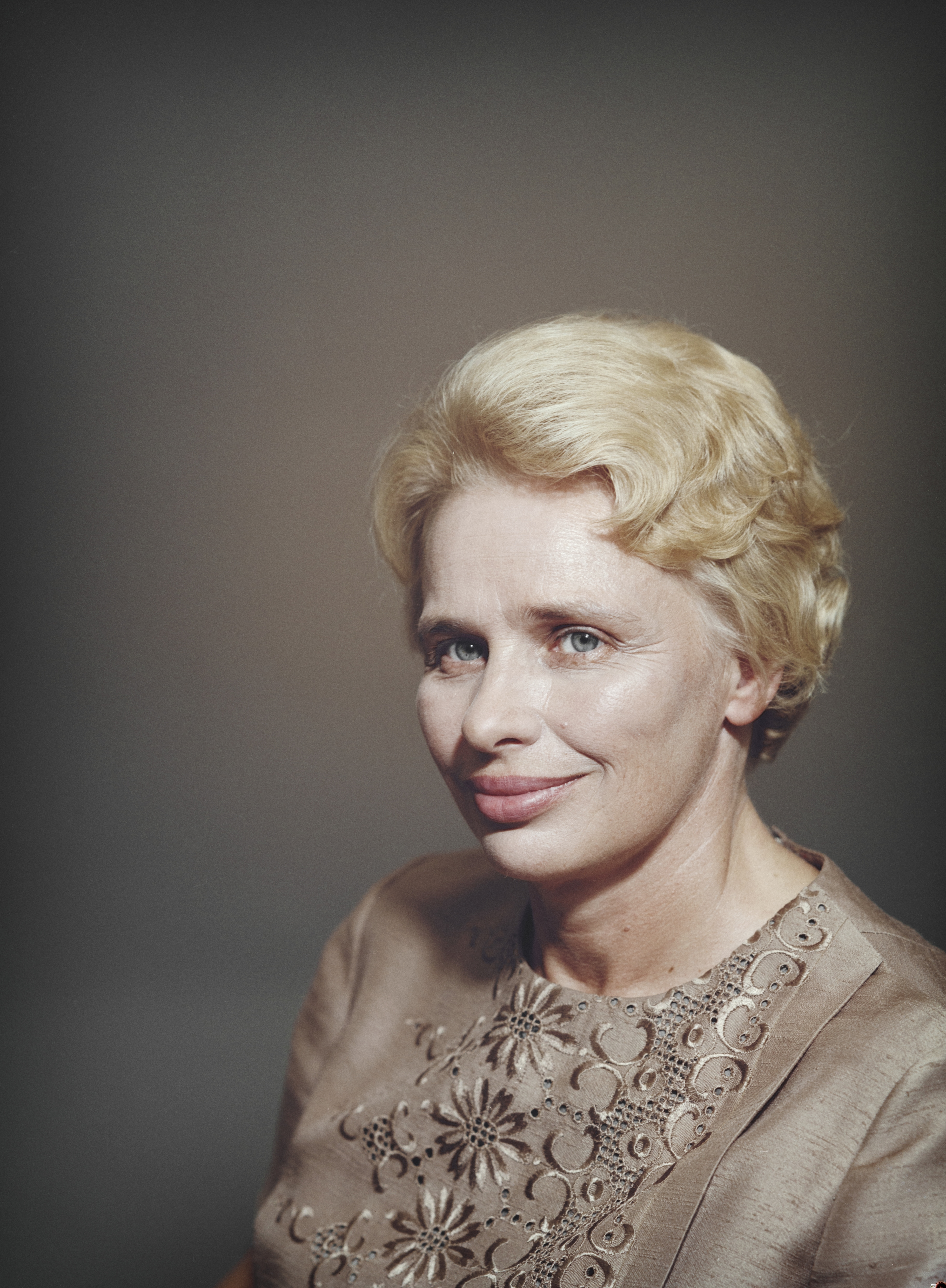 Photograph of the Finnish psychiatrist Terttu Arajärvi (1922–2014).